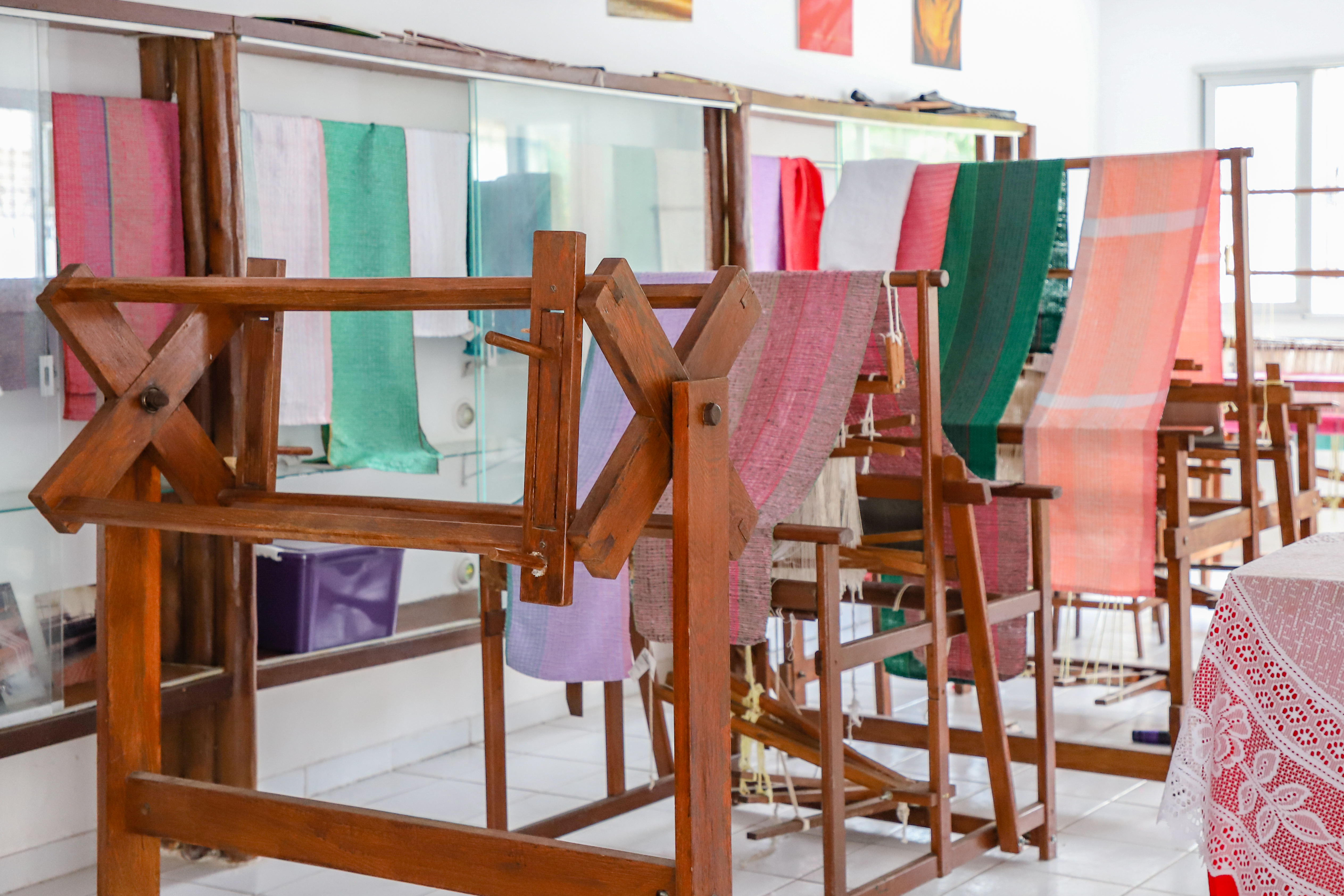 Casa do Alaká, Ilê Axé Opô Afonjá, Salvador, Bahia, Brazil. "The African alaká cloth, known as pano-da-costa in Brazil, is produced by weavers from Ilê Axé Opô Afonjá, a Candomblé terreiro, in Salvador, in a workspace called Casa do Alaká."